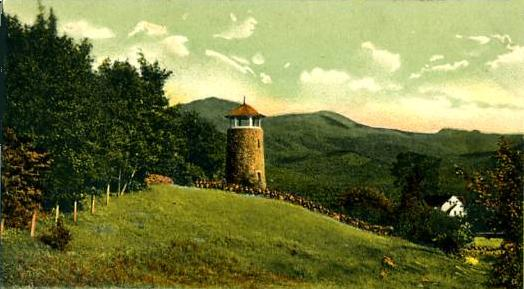 Carter's Tower in 1906, Jefferson, NH; from an old postcard.